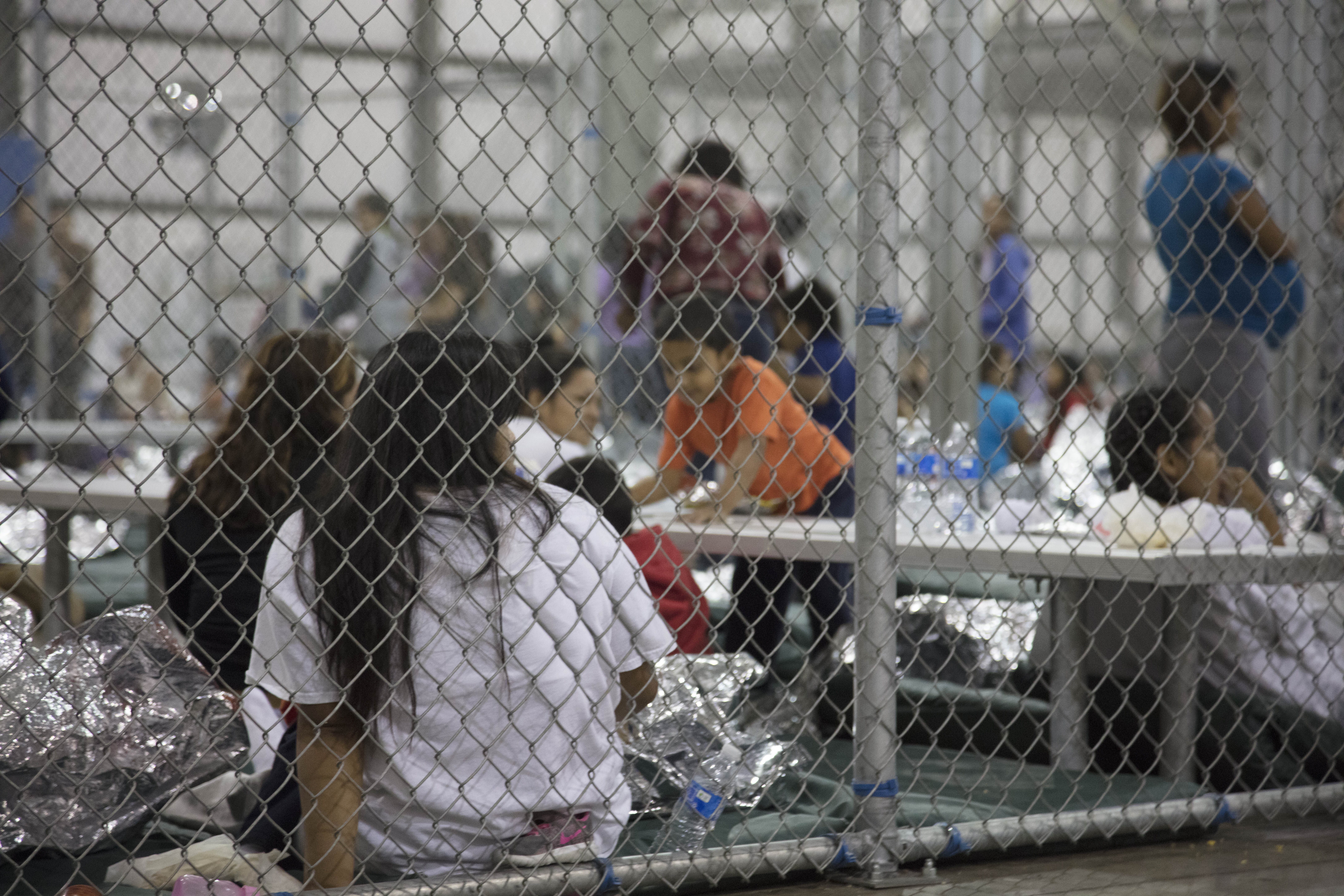 U.S. Border Patrol agents conduct intake of illegal border crossers at the Central Processing Center in McAllen, Texas, Sunday, June 17, 2018.